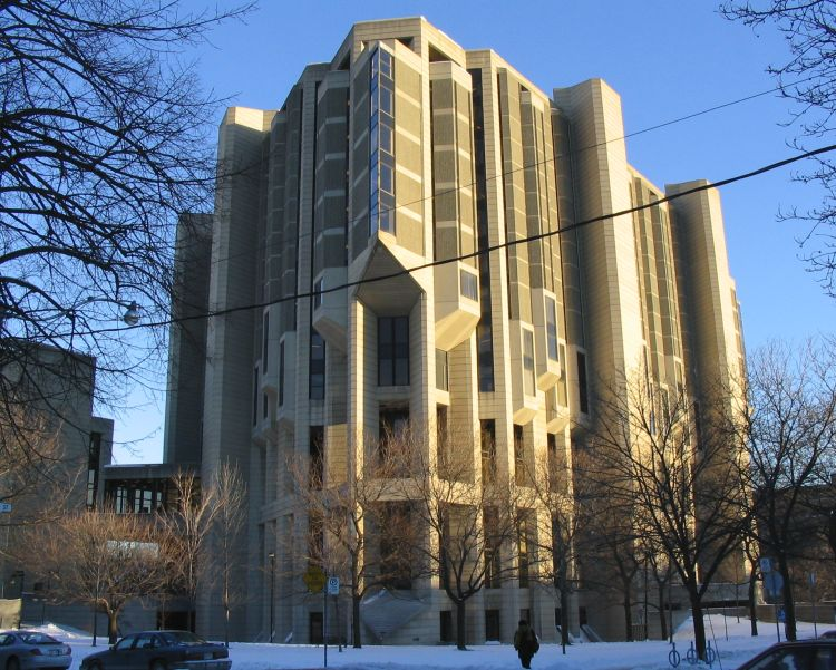 Credit: Photo created by Sascha Noyes Subject: Robarts Library on the campus of the University of Toronto 2004 with a Canon A70 digital camera.